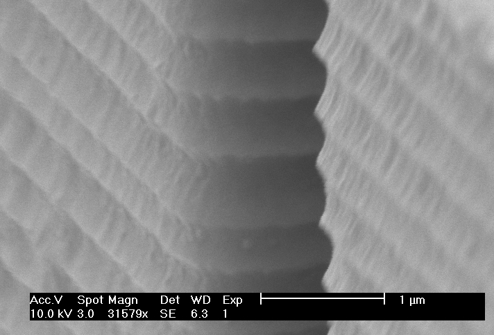 Scanning electron micrograph of the undulating sidewall of a silicon structure fabricated using photolithography and deep reactive-ion etching (Bosch process)